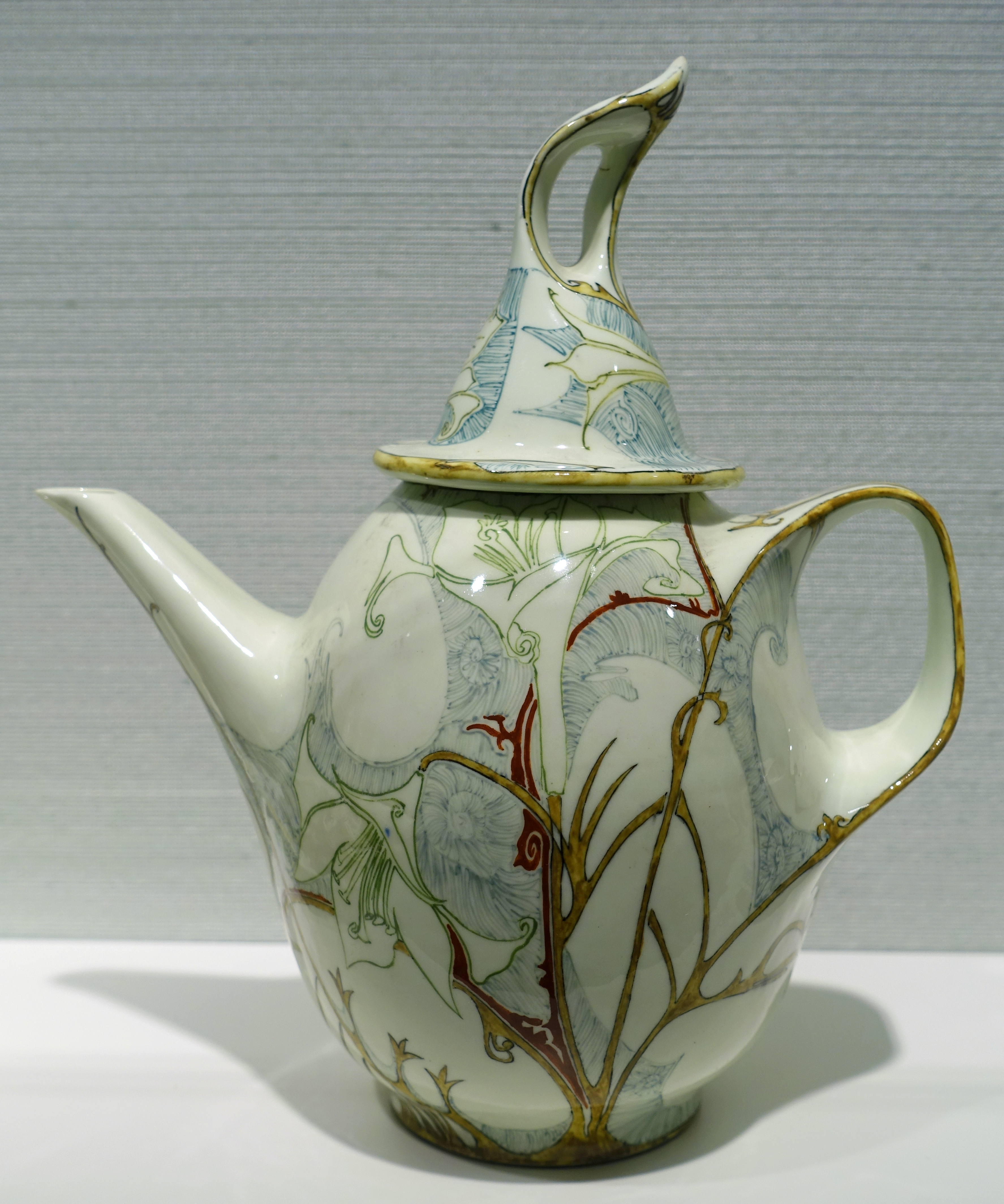 Exhibit in the Hessisches Landesmuseum Darmstadt - Darmstadt, Germany. As a utilitarian object, this exhibit is NOT subject to copyright laws. Instead it is subject to Industrial Design Rights; see Industrial Design Right for more information. If this object was ever covered by a design patent, that patent has long since expired, and thus this image is in the public domain.